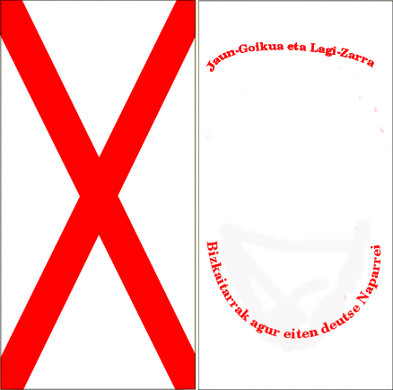 Flag created by Arana Goiri brothers and used in Castejón in 18th Febrery 1894. Gamazada, 1894. Navarra, Basque Country.